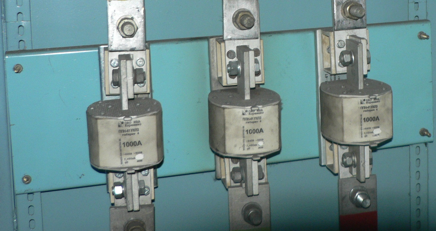 Three knife fuses with "ППН" characteristics, which equals to "gG" characteristics in Europe.